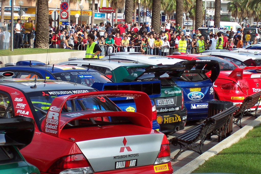 WRC cars parked at the 2005 Rally Catalunya.